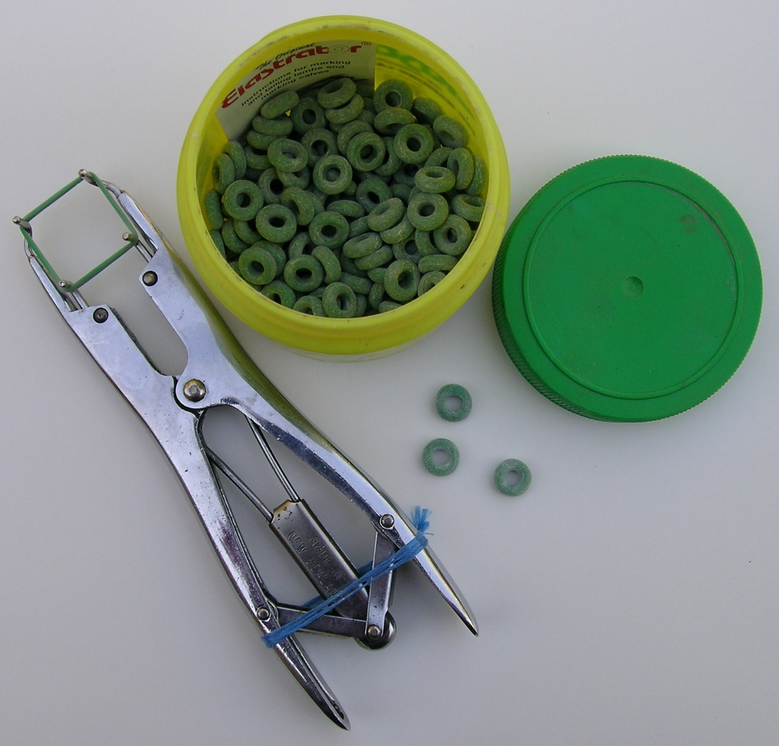 Elastrator rings and plier as used on lambs and some calves